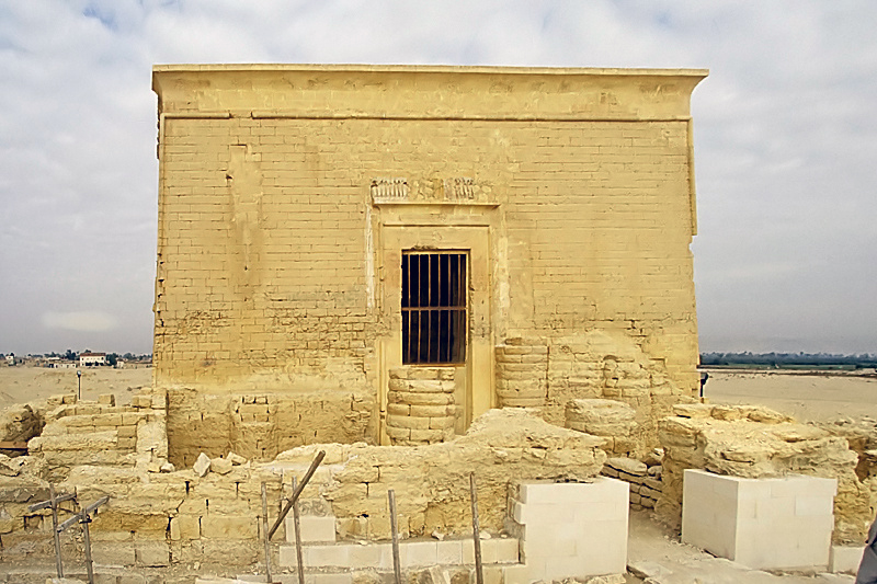 Façade of the temple of Sobek-Re, Qasr Qarun, el-Fayyum, Egypt